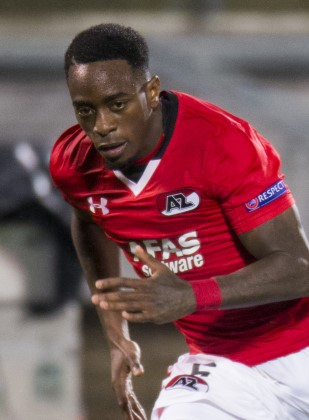 Ridgeciano Haps